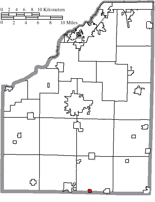 Map of the municipal and township boundaries of Wood County, Ohio, United States, as of the 2000 census, with the location of the village of Bairdstown highlighted. Township borders are shown only in unincorporated areas in order to differentiate incorporated and unincorporated areas more clearly.